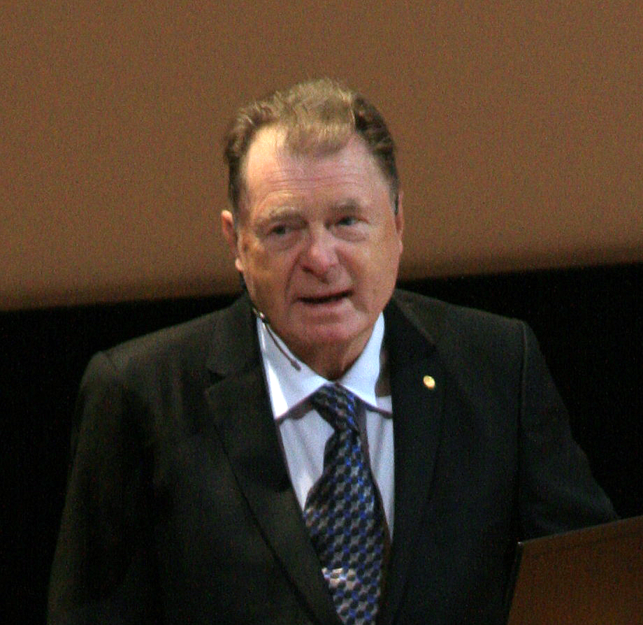 Richard Fred Heck, awarded the Nobel Prize in Chemistry for 2010, at his Nobel lecture in Stockholm University